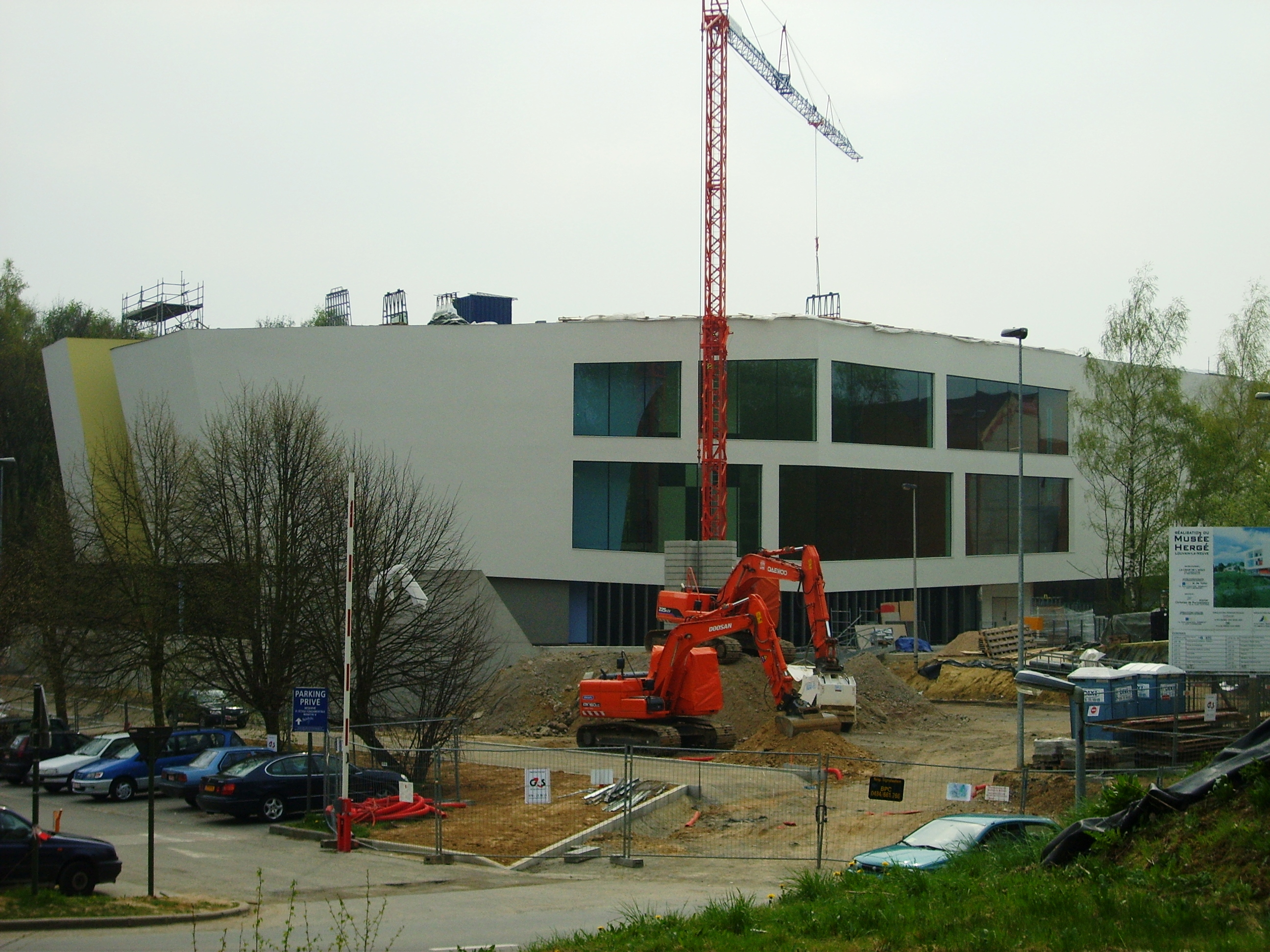 Louvain-la-Neuve (Belgium), the Hergé Museum under construction (Architect: Christian de Portzamparc).